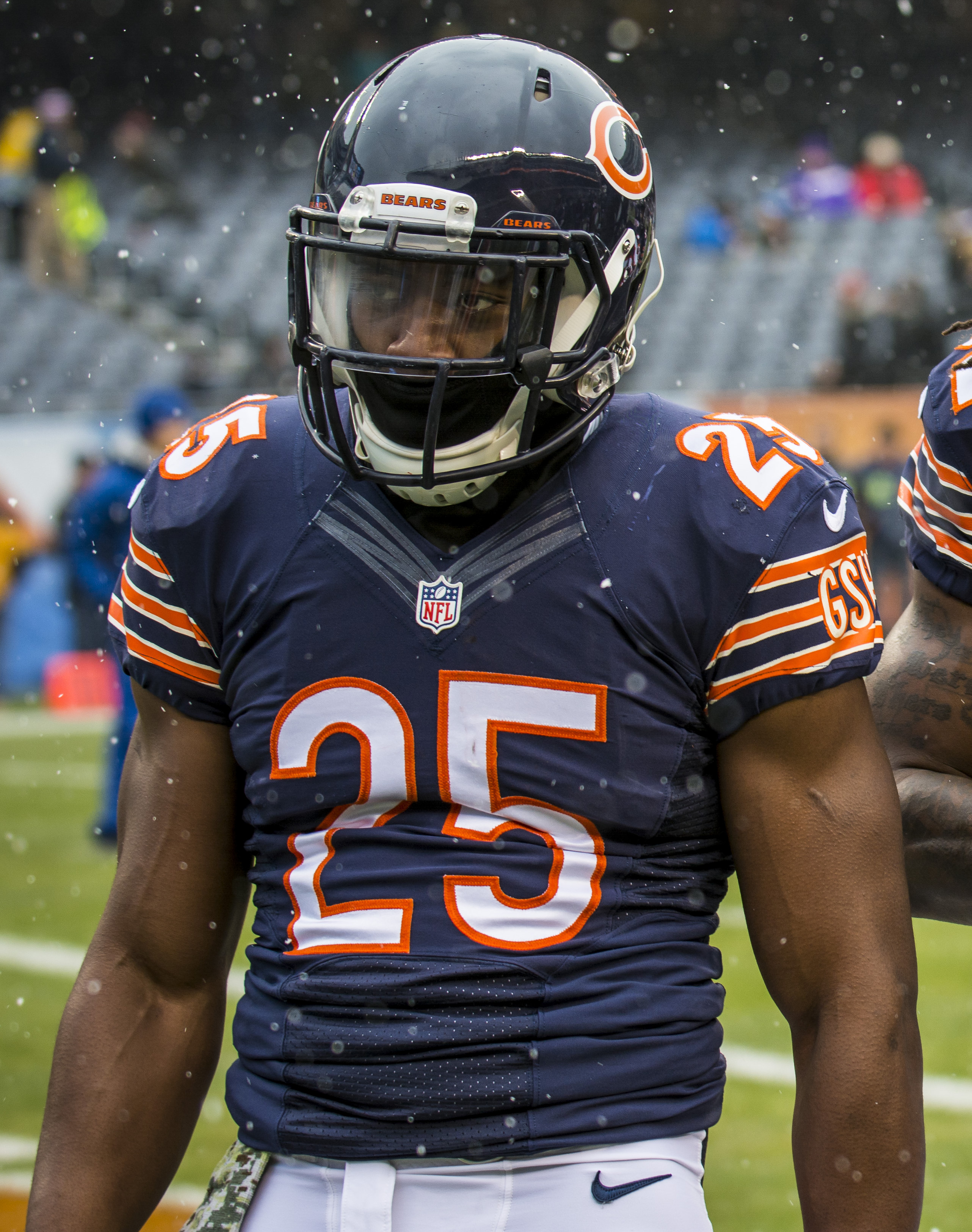 Chicago Bears running back, Ka'Deem Carey, in a game against the Minnesota Vikings on November 16, 2014.